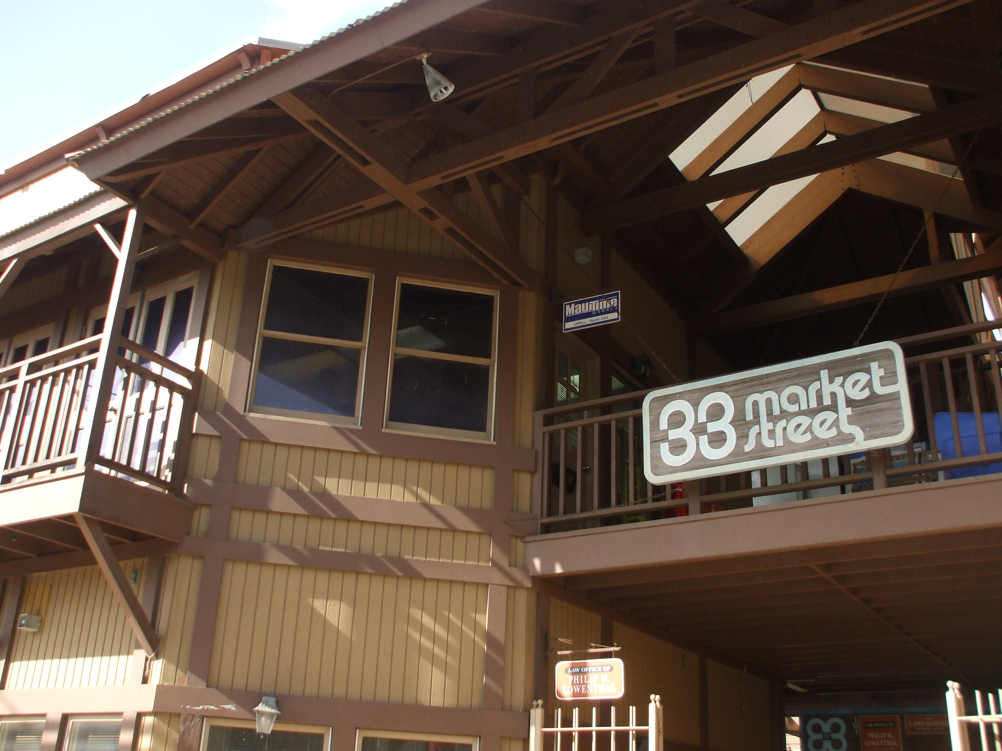 Someone's in the window looking at me apparently.